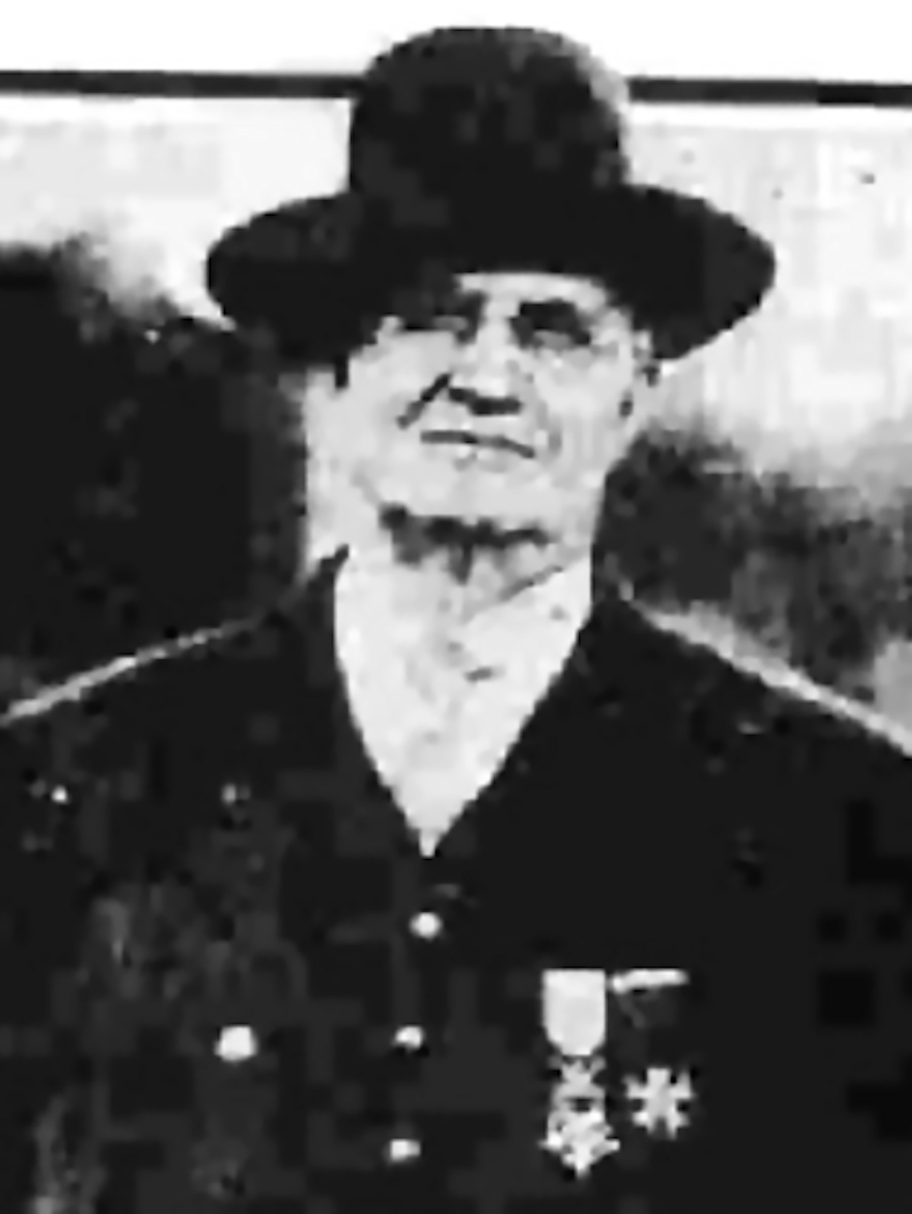 Medal of Honor winner William H Sickles 1913